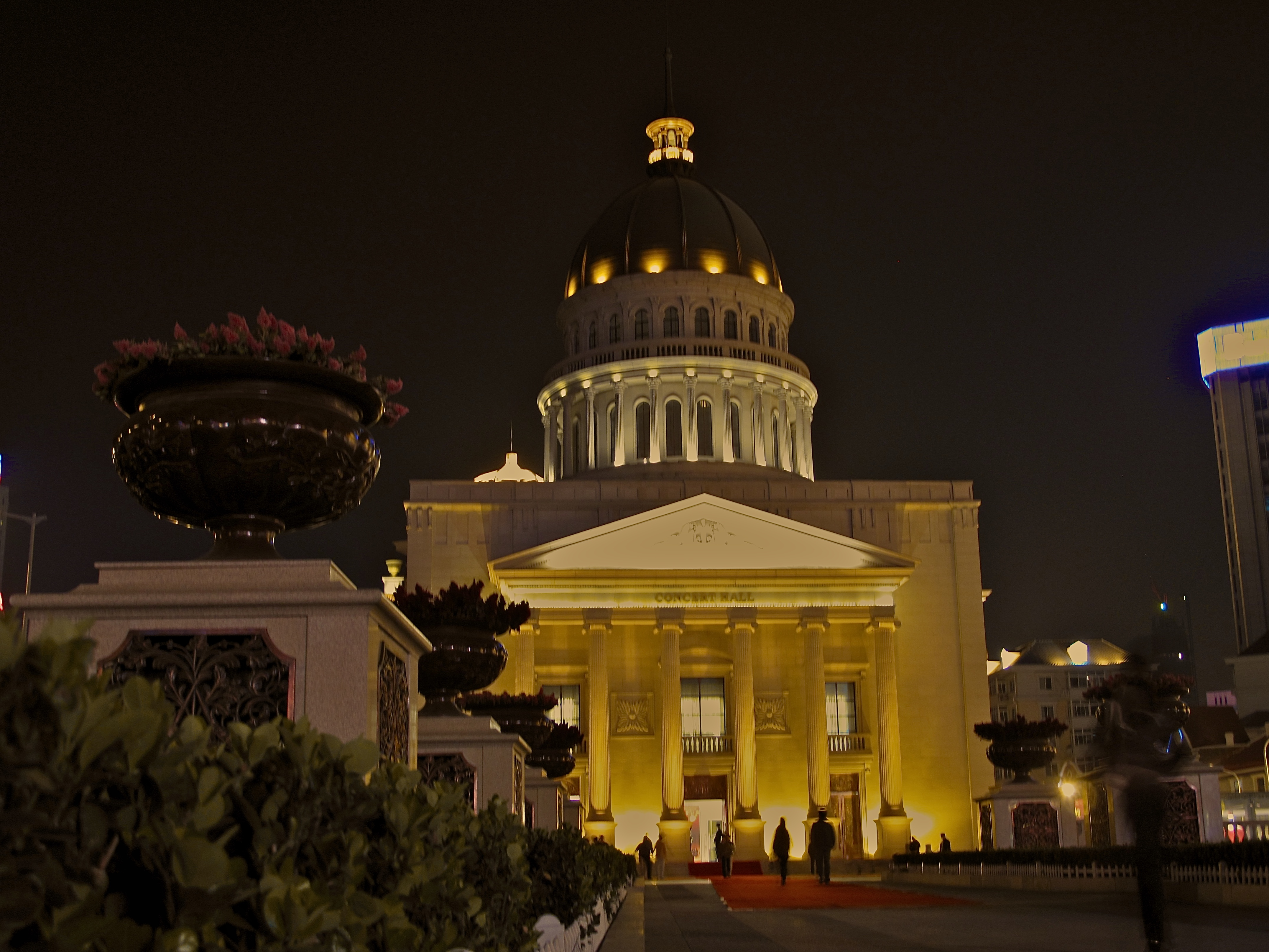 The new City Concert Hall in Tiinajin